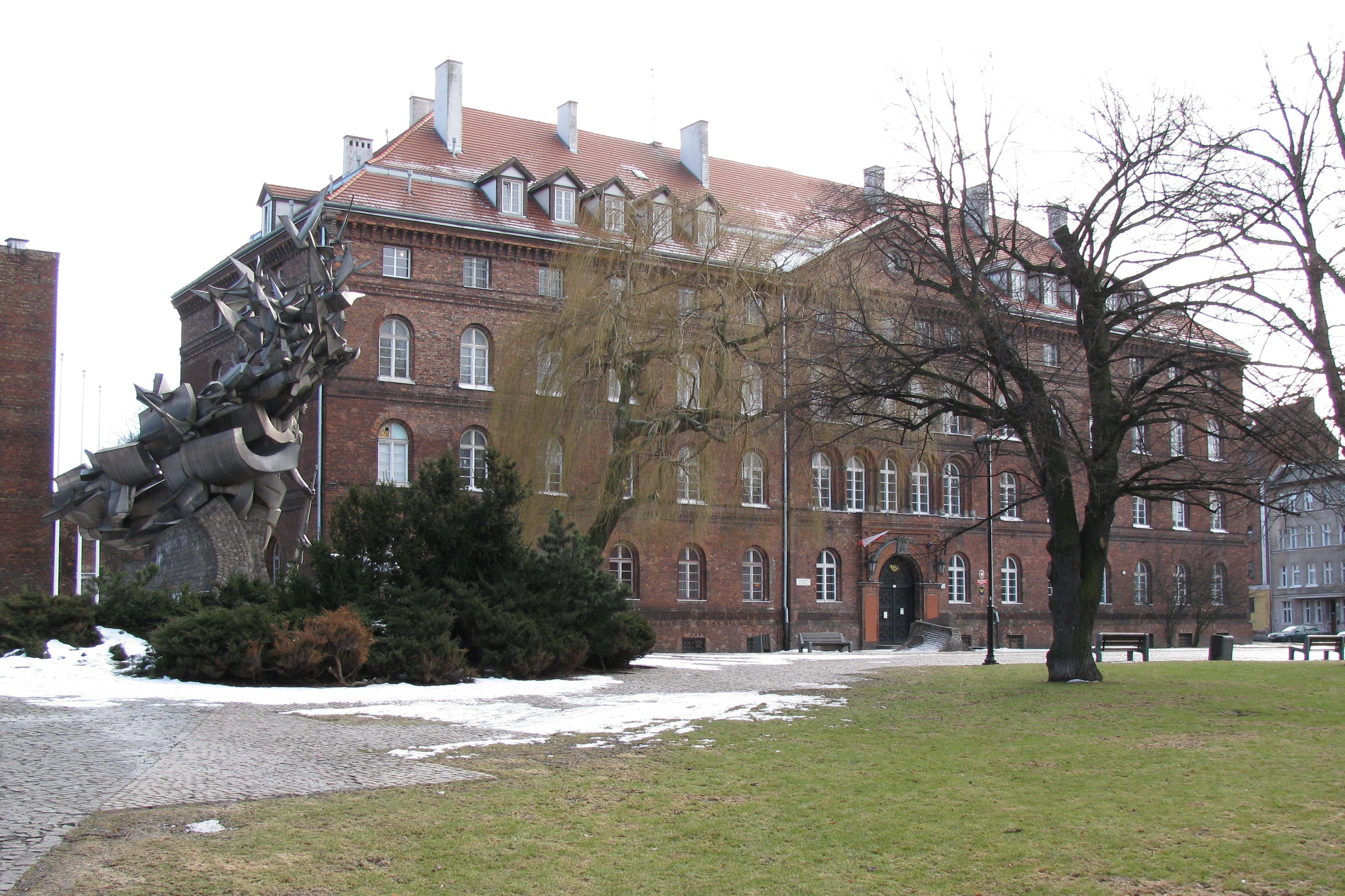 Pre-war Polish Post Office in Free City of Danzig (today Gdańsk, Poland).